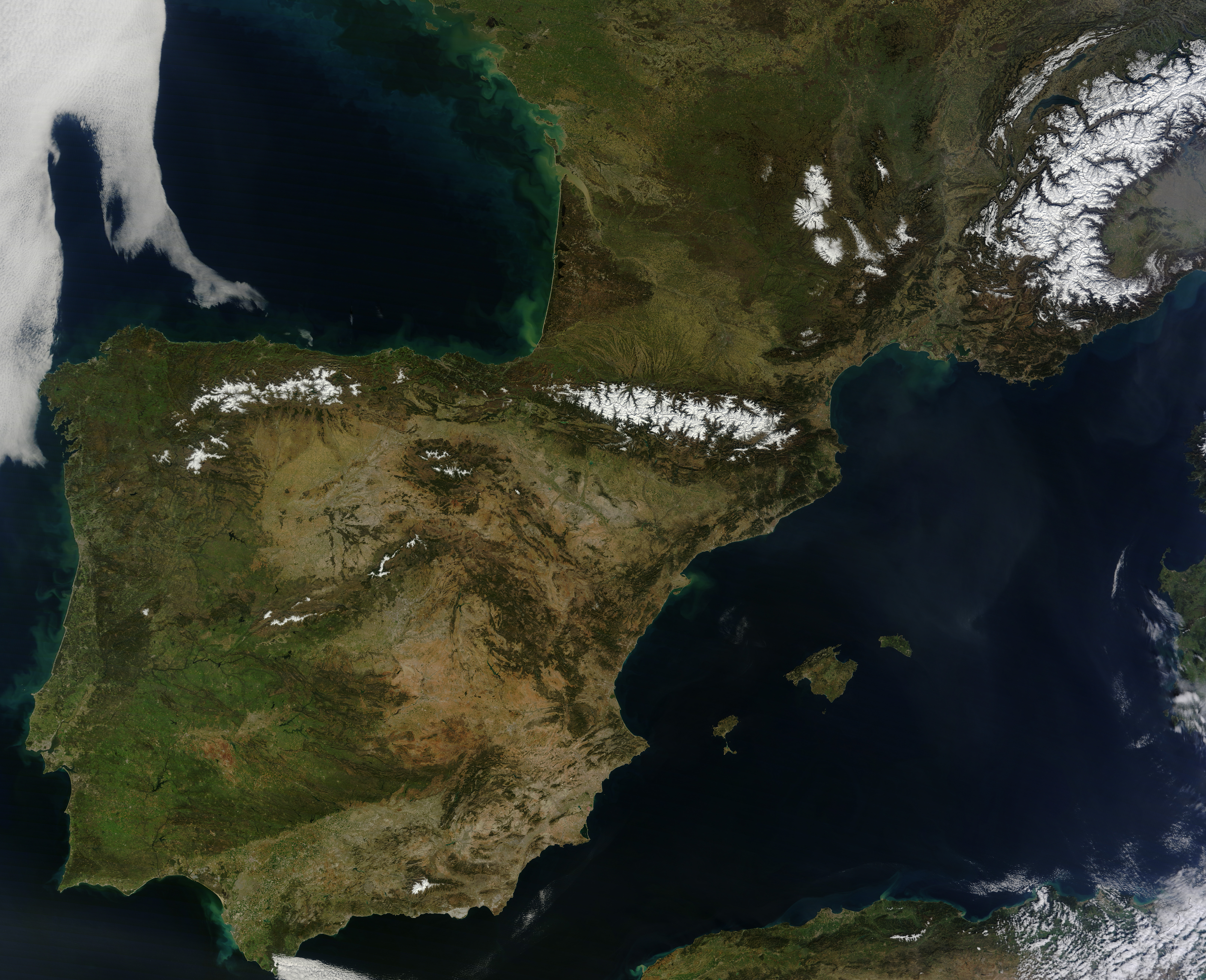 Rarely do weather patterns and satellite overpass schedules align to provide cloud-free views of Western Europe in the spring. However, a high-pressure pattern kept skies spectacularly clear over the Iberian Peninsula and east into France and Germany as the Moderate Resolution Imaging Spectroradiometer (MODIS) on NASA’s Terra satellite passed over on March 8, 2014. The cloud-free area began to emerge on March 5 and persisted through March 11. Explore Worldview—a near-real time browser from the MODIS Rapid Response Team—to see a wider view and how the cloud-free area changed over time. This unobstructed view of Spain, Portugal, Andorra, and southern France exposed a variety of natural features. Meseta Central, the broad mountainous plateau at the center of the Iberian Peninsula, appears brown compared to the greener coastal lowlands to the west. Near the center of the image, the snow-capped Pyrenees Mountains serve as a natural barrier between France and Spain. The Cantabrian Mountains, another range in northern Spain, are visible to the west of the Pyrenees. The snow-covered areas to the north are the highlands of France’s Massif Central.